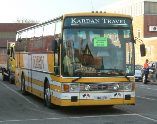 Photographed with reg no 114uph, after being bought from Coopers,Killamarsh.